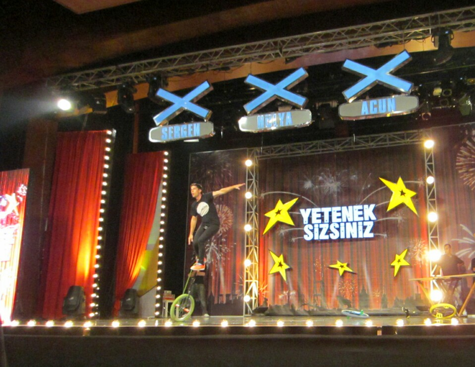 Dustin Kelm competes and qualifies for semi-finals on Yetenek Sizsiniz in Istanbul Turkey after this rehearsal.